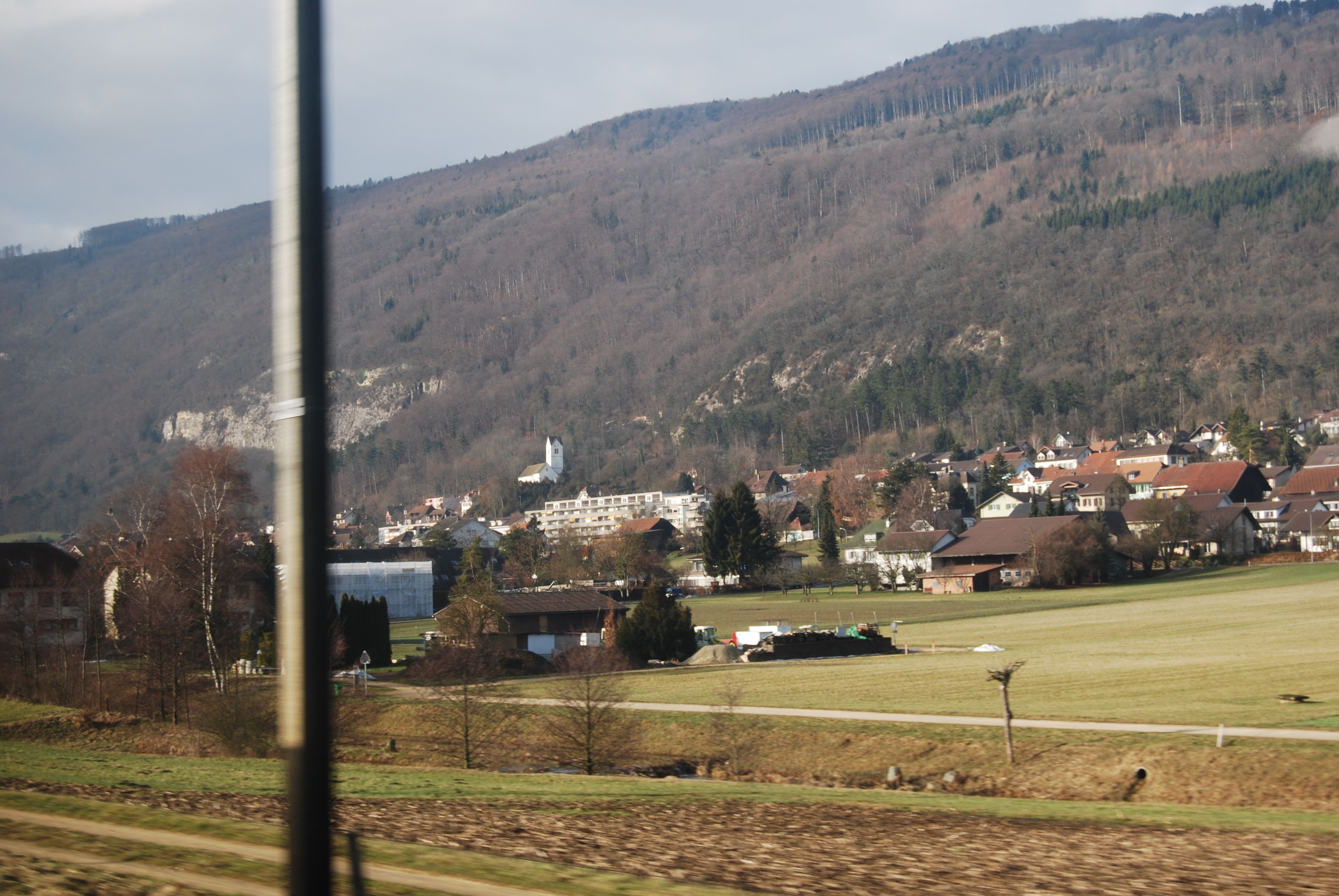 Pieterlen, canton of Bern, SwitzerlandEsperanto: Pieterlen, Kantono Berno, Svislando